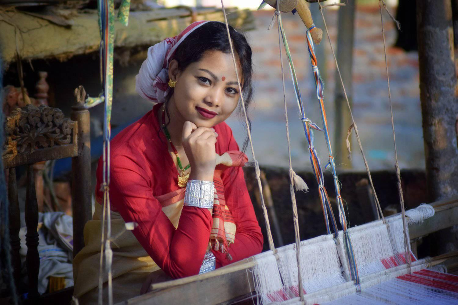 A Chutia girl in her traditional attire Riha(Methoni), Mekhela, Chula, Gatigi and jewelry Gam ushung, Madoli and Junbiri.